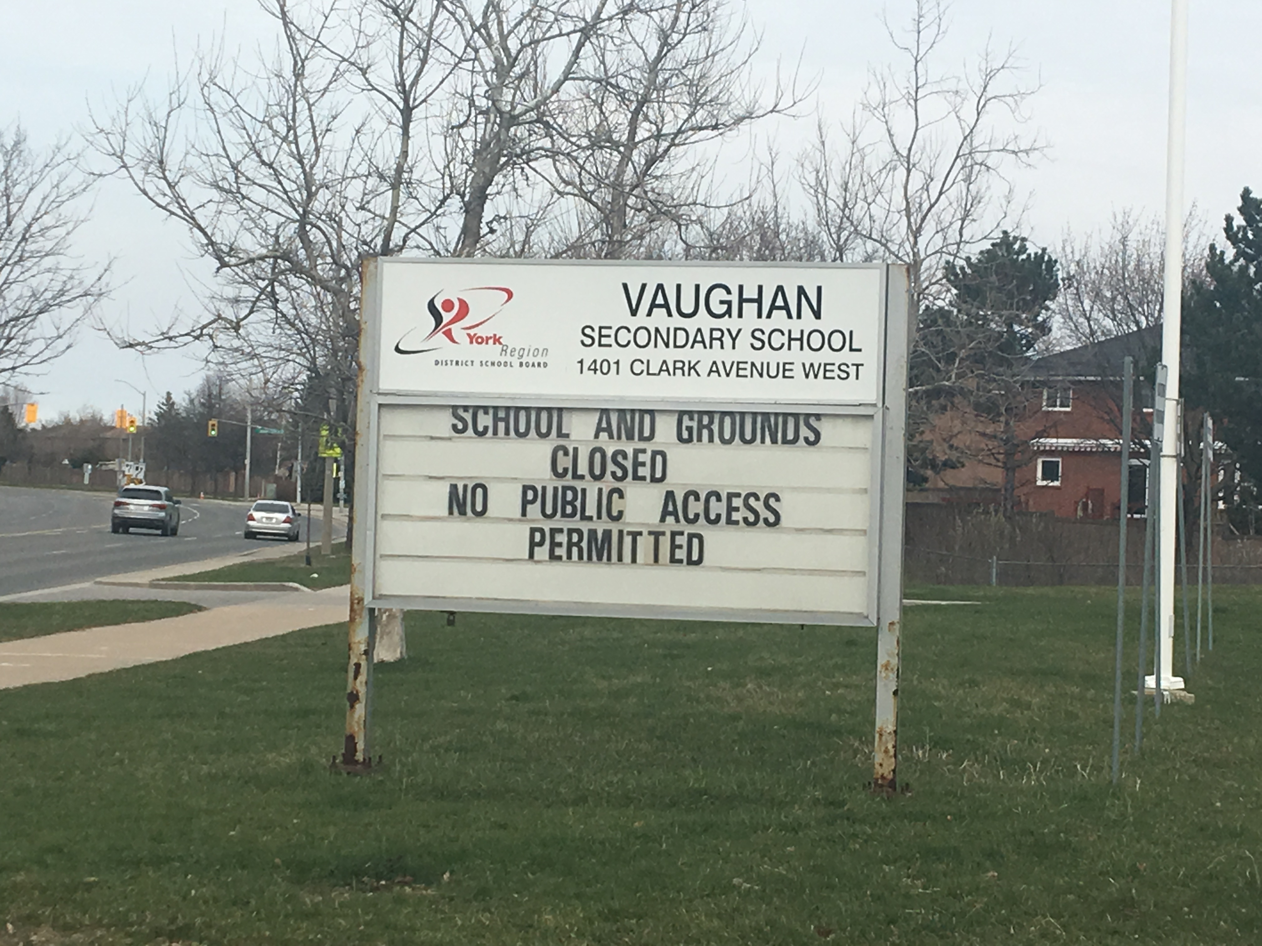 Sign outside of Vaughan Secondary School about the closure of school